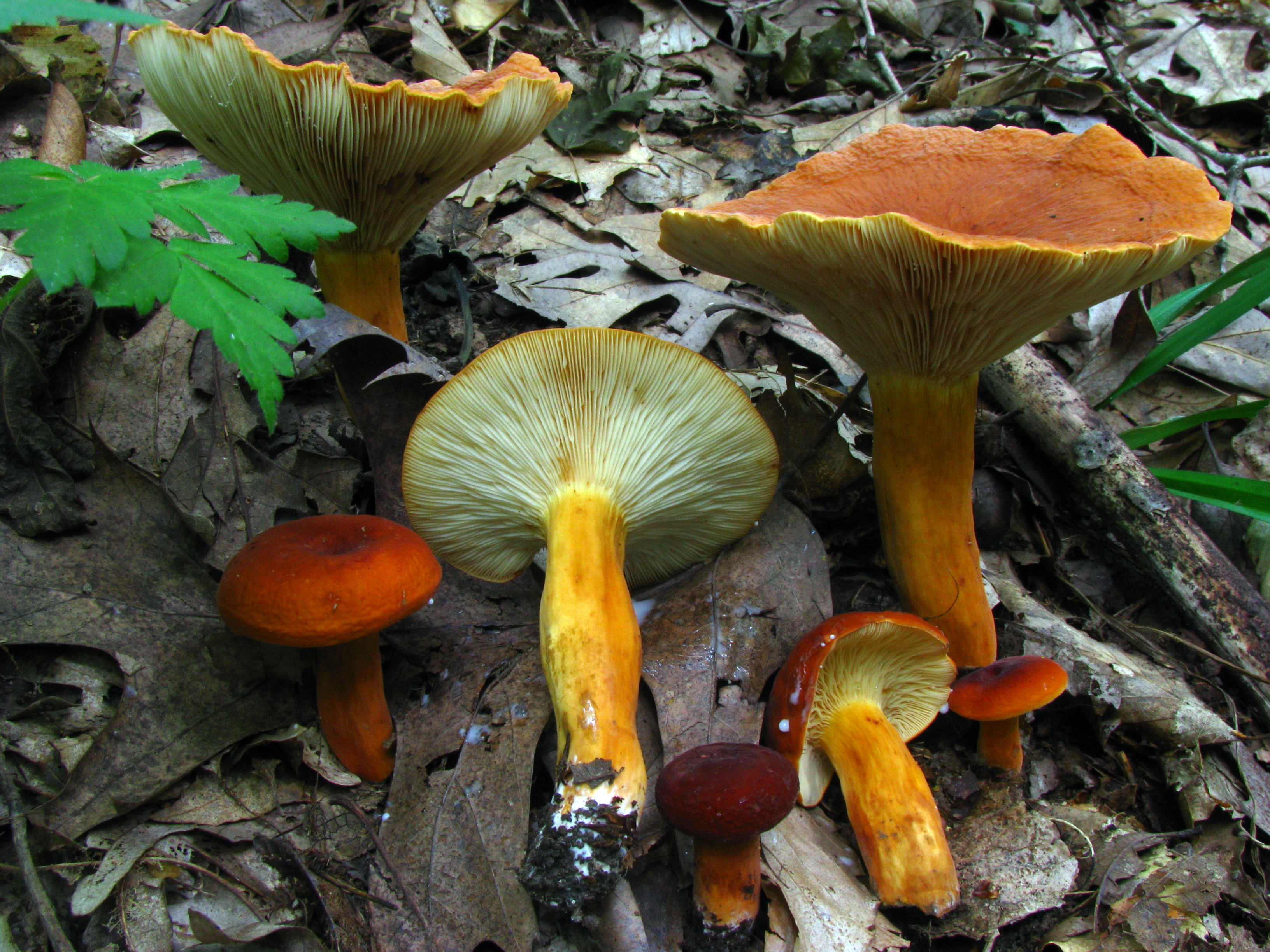 The "milk mushroom" Lactarius volemus (Fr.) Fr. Specimens photographed in Wayne National Forest, Athens Co., Ohio, USA.